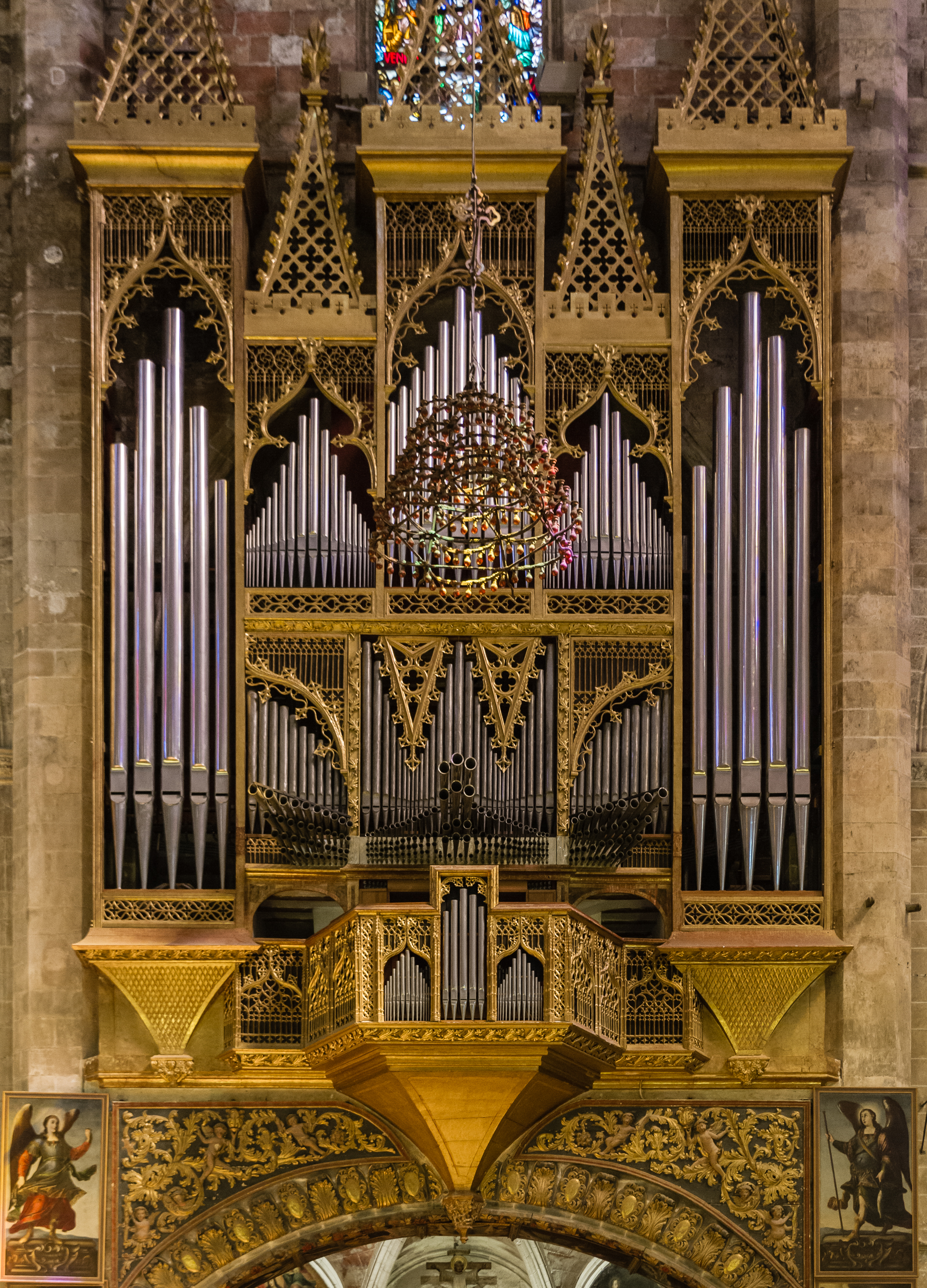 Designation: Palma Cathedral Description: Organ of the Palma Cathedral Category: Religious building